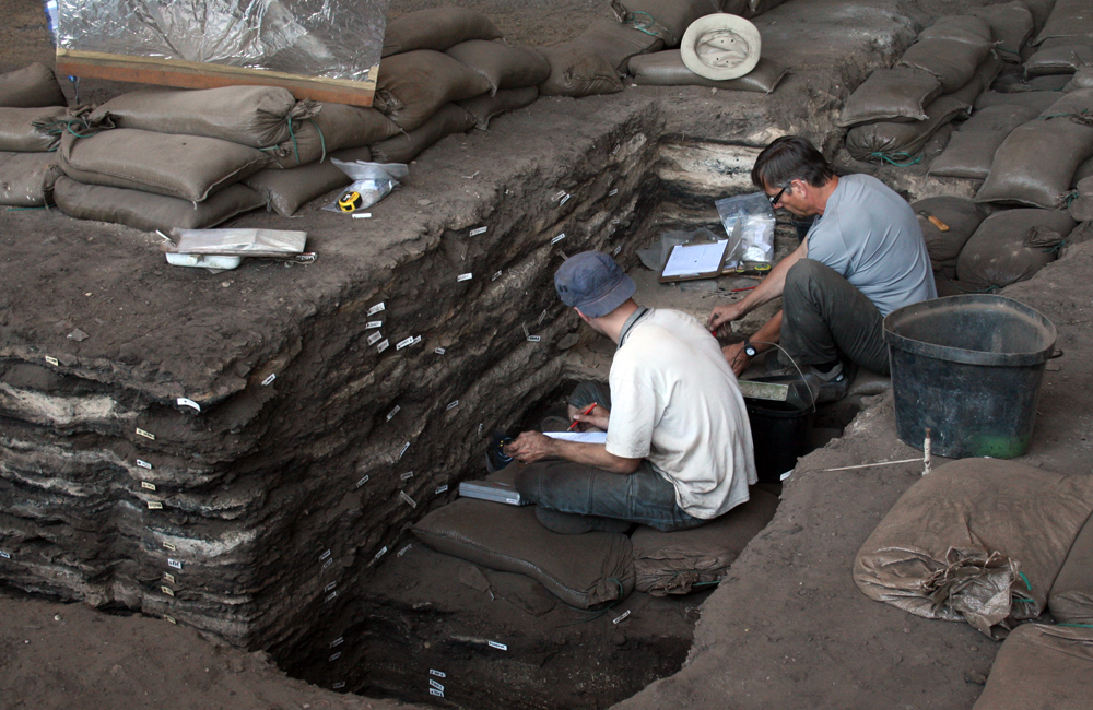 detail of the excavation in Diepkloof Rock Shelter site, South Africa